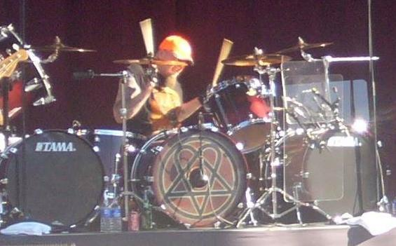 Author: Omar Otiniano Nationality: Peruvian Photo taken At: Marysville, CA